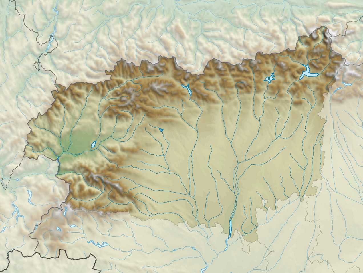 Location relief map of Province of León Equirectangular projection, N/S stretching 130 %. Geographic limits of the map: N: 43.384903° N S: 41.860560° N W: 7.243892° O E: 4.608046° O